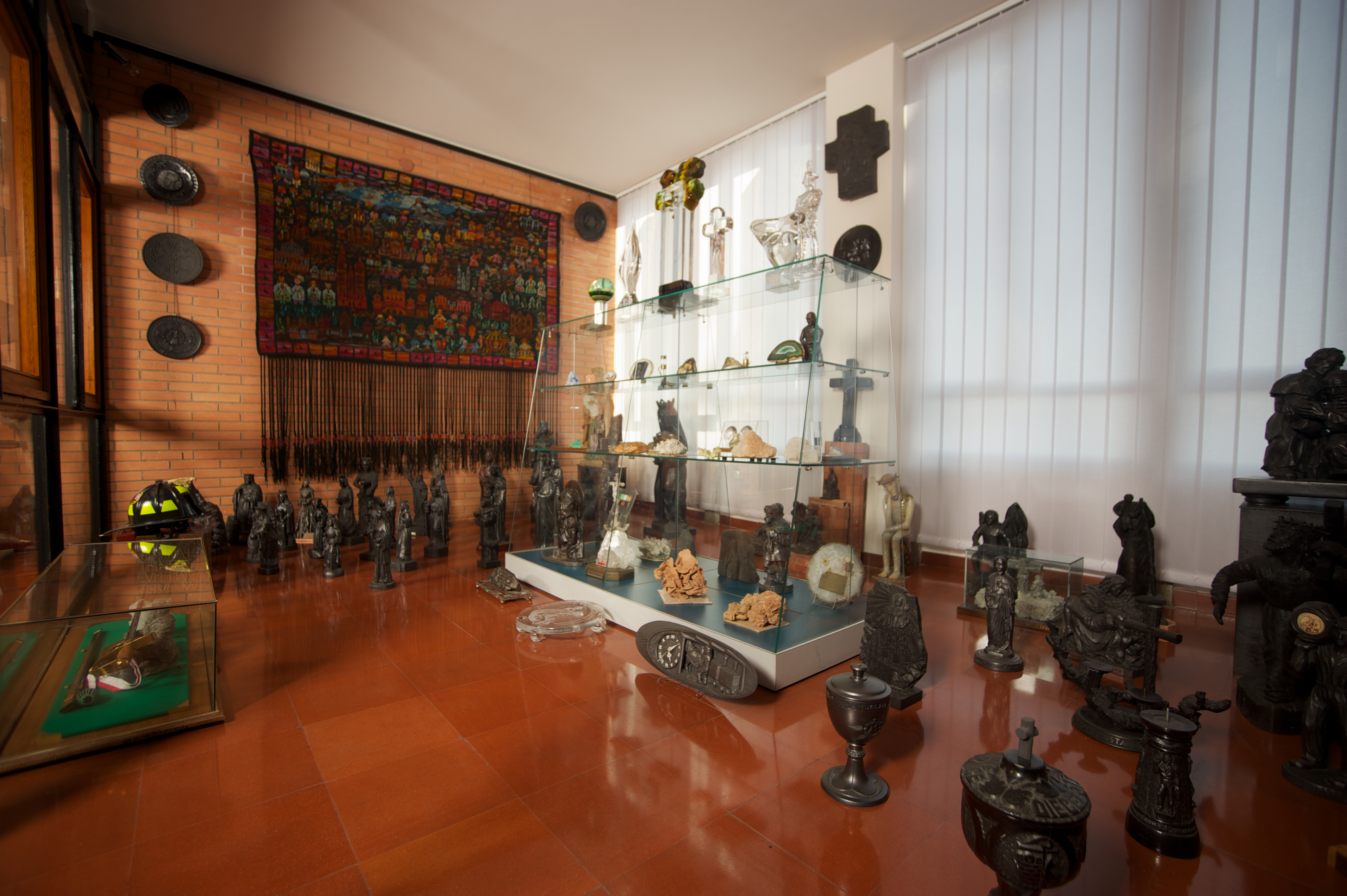 The John Paul II Pontificate’s Center for Documentation and Research in Rome